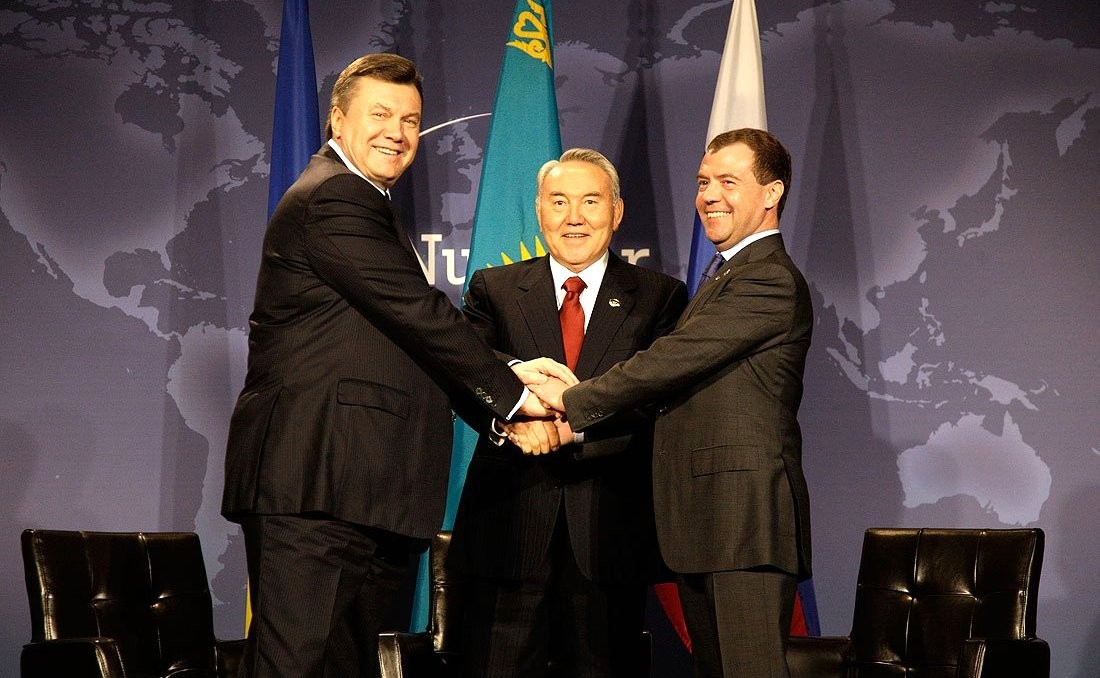 With President of Ukraine Viktor Yanukovych and President of Kazakhstan Nursultan Nazarbayev.